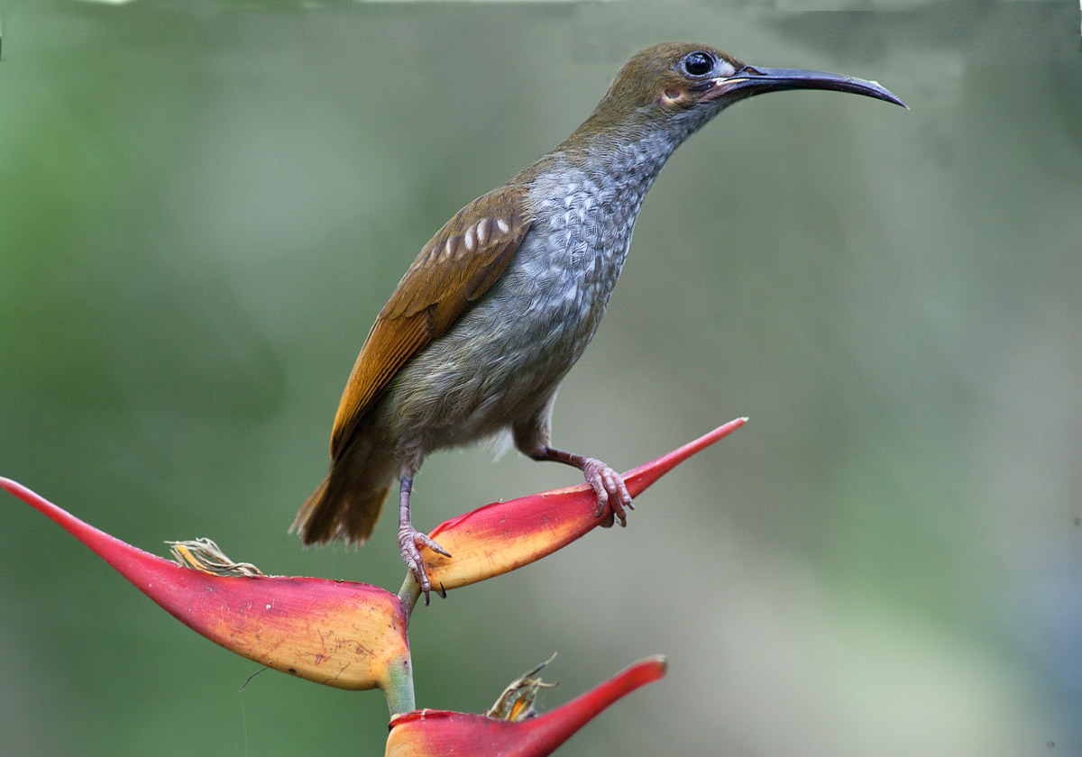 Naked-faced Spiderhunter (Arachnothera clarae luzonensis) an endemic bird of the philippines. Taken at Lamesa Park, Novaliches, Quezon City, Philippines